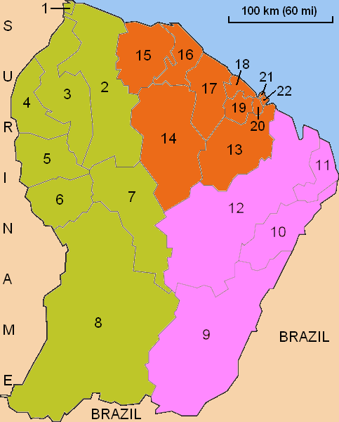 Originally uploaded to English Wikipedia by User:Godefroy with the following licence